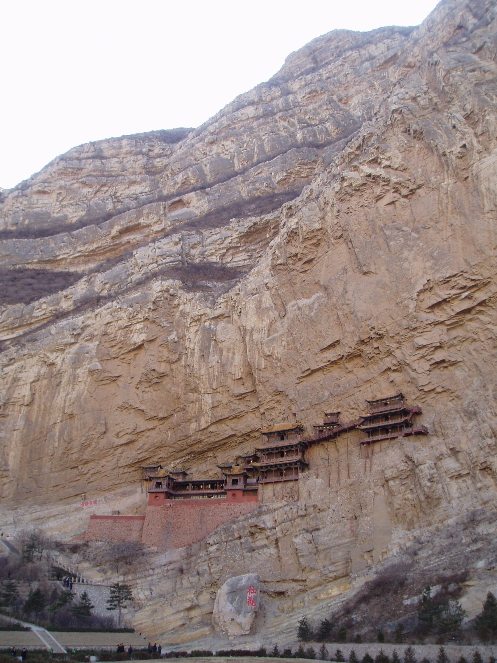 The Hanging Monastery, Heng Shan, Shanxi, China